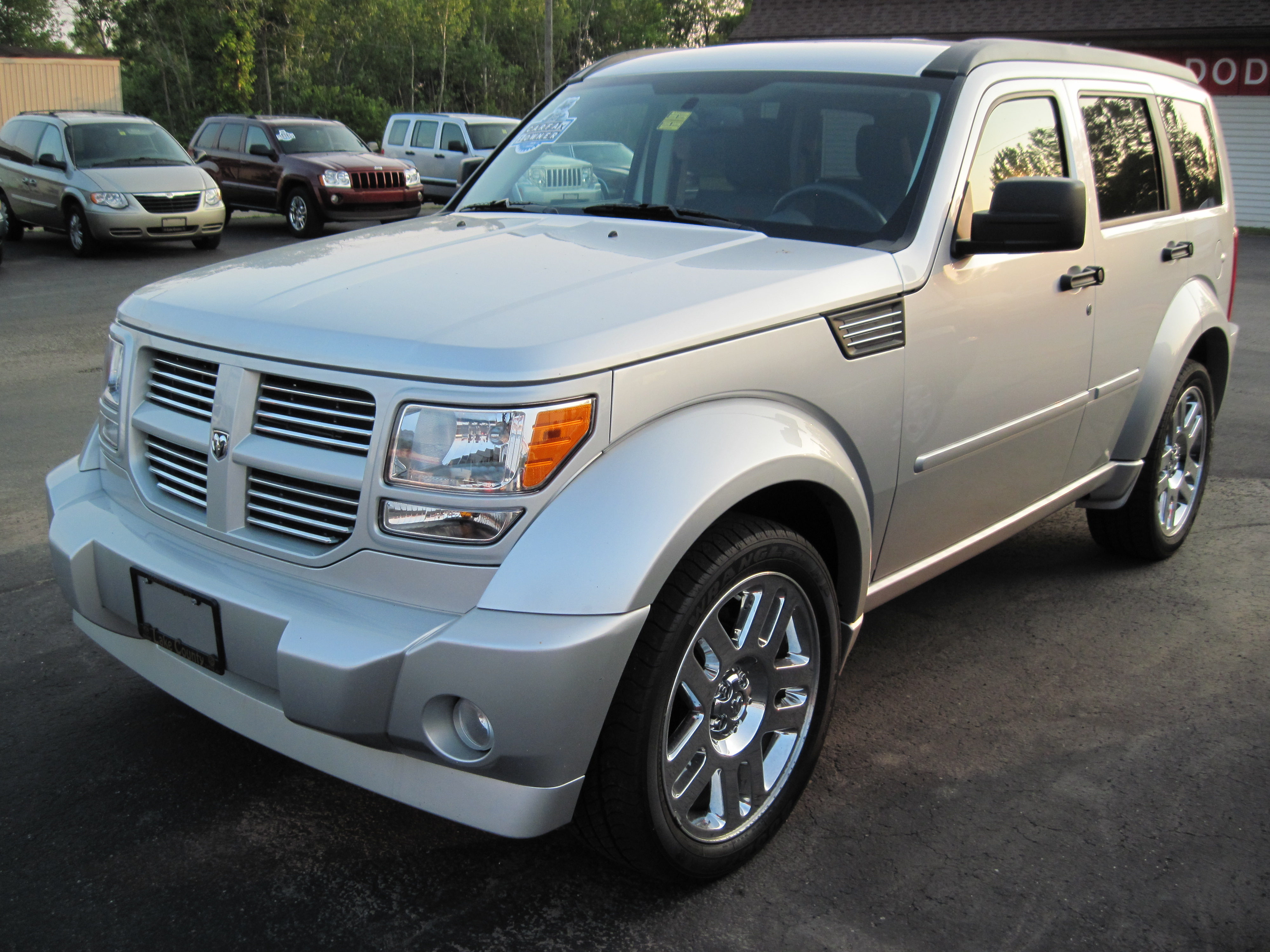 A Dodge Nitro R/T photographed in Jamestown, NY.